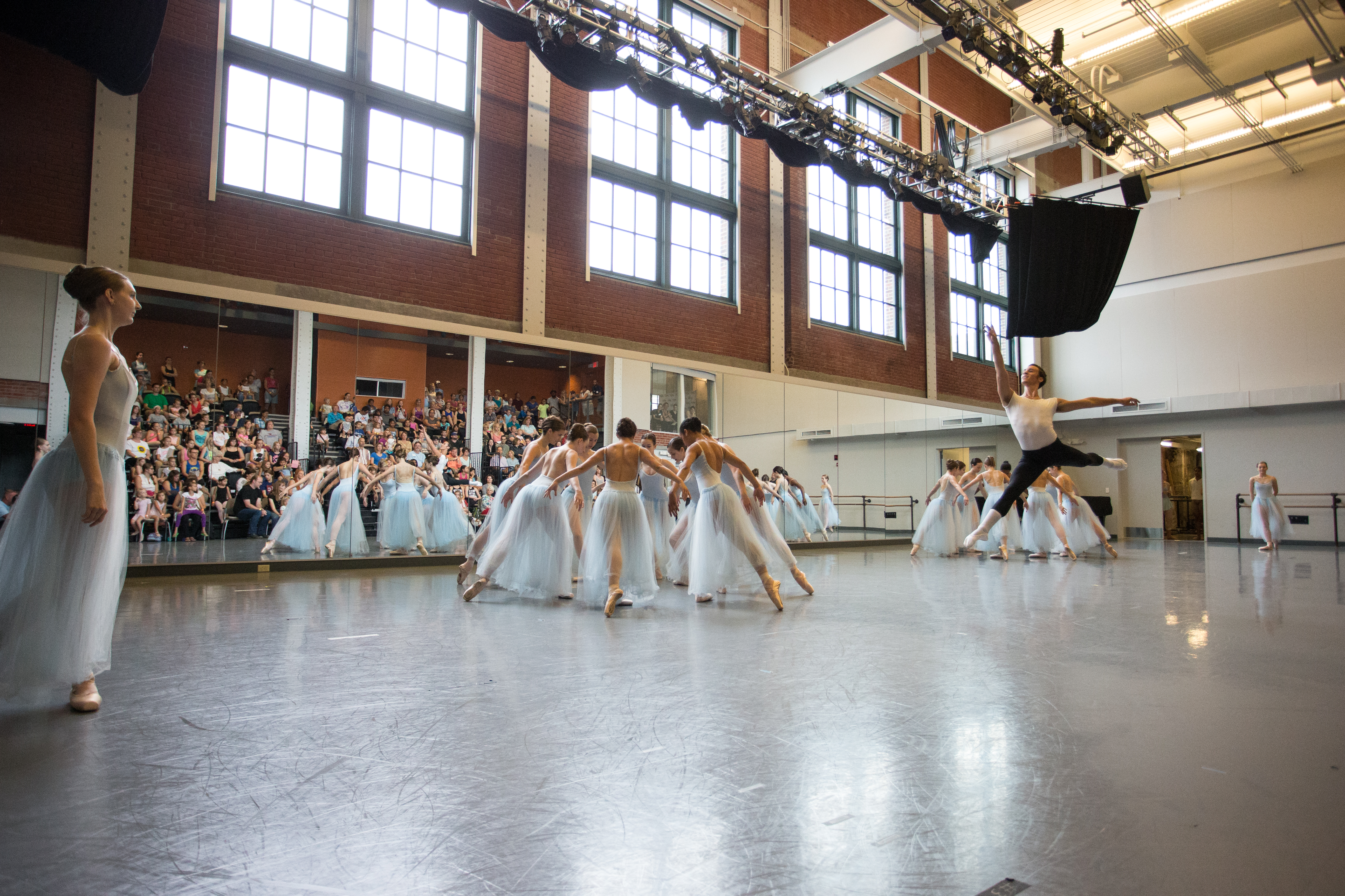 Kansas City Youth Ballet performing. Photography: Brett Pruitt & East Market Studios